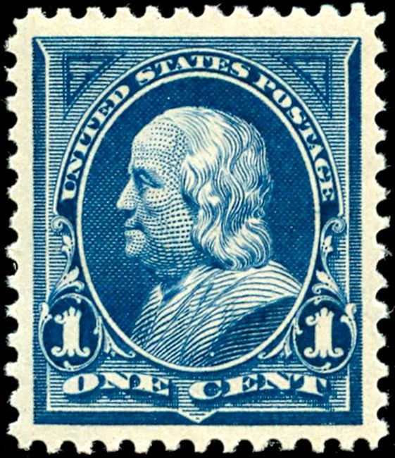 Benjamin_Franklin2_1895_Issue-1c.jpg